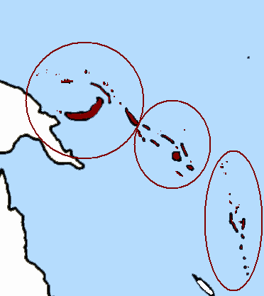 Eastern Melanesia Islands hotspot map